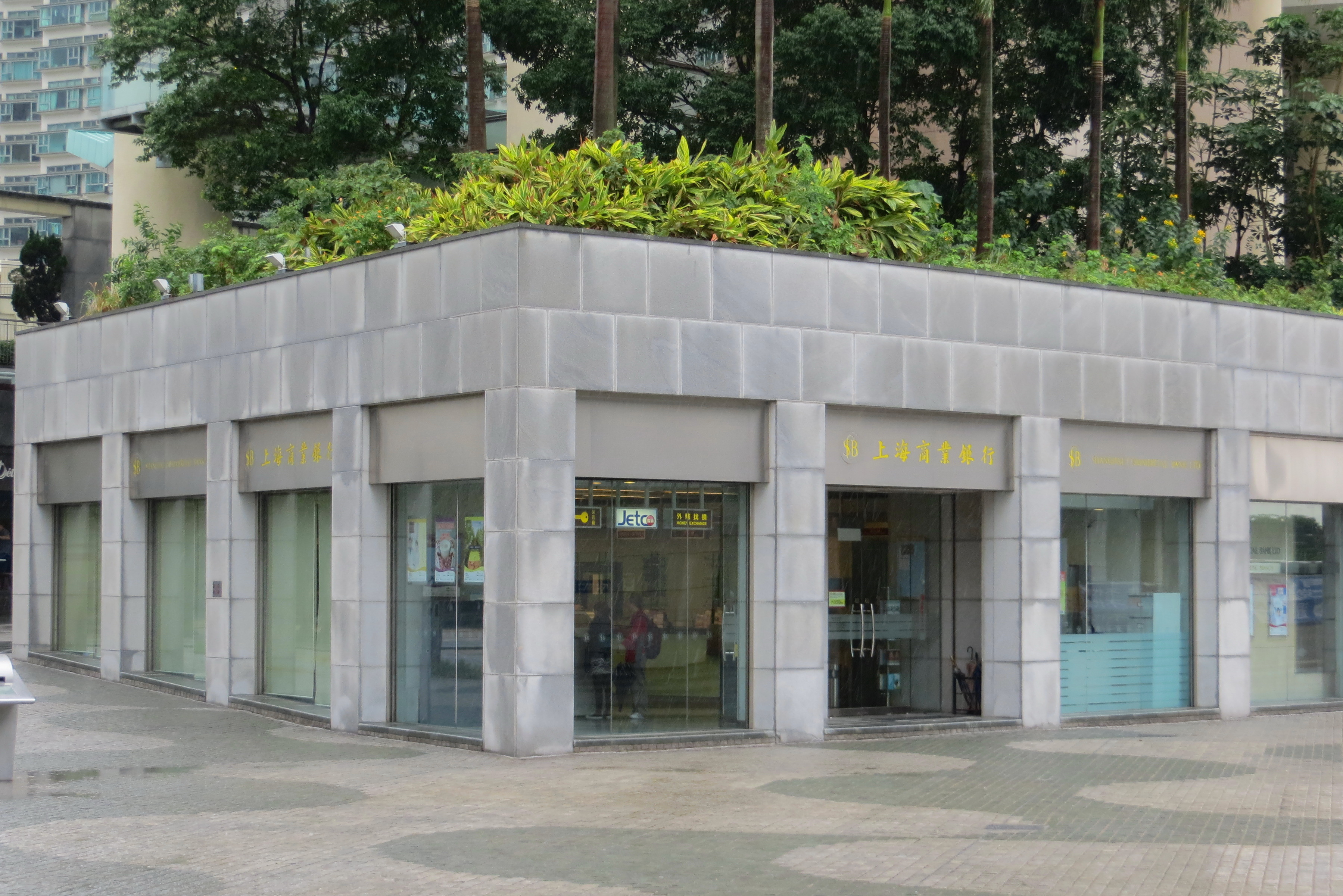 Shanghai Commercial Bank, Tung Chung Branch, Tung Chung, Lantau Island, Hong Kong.